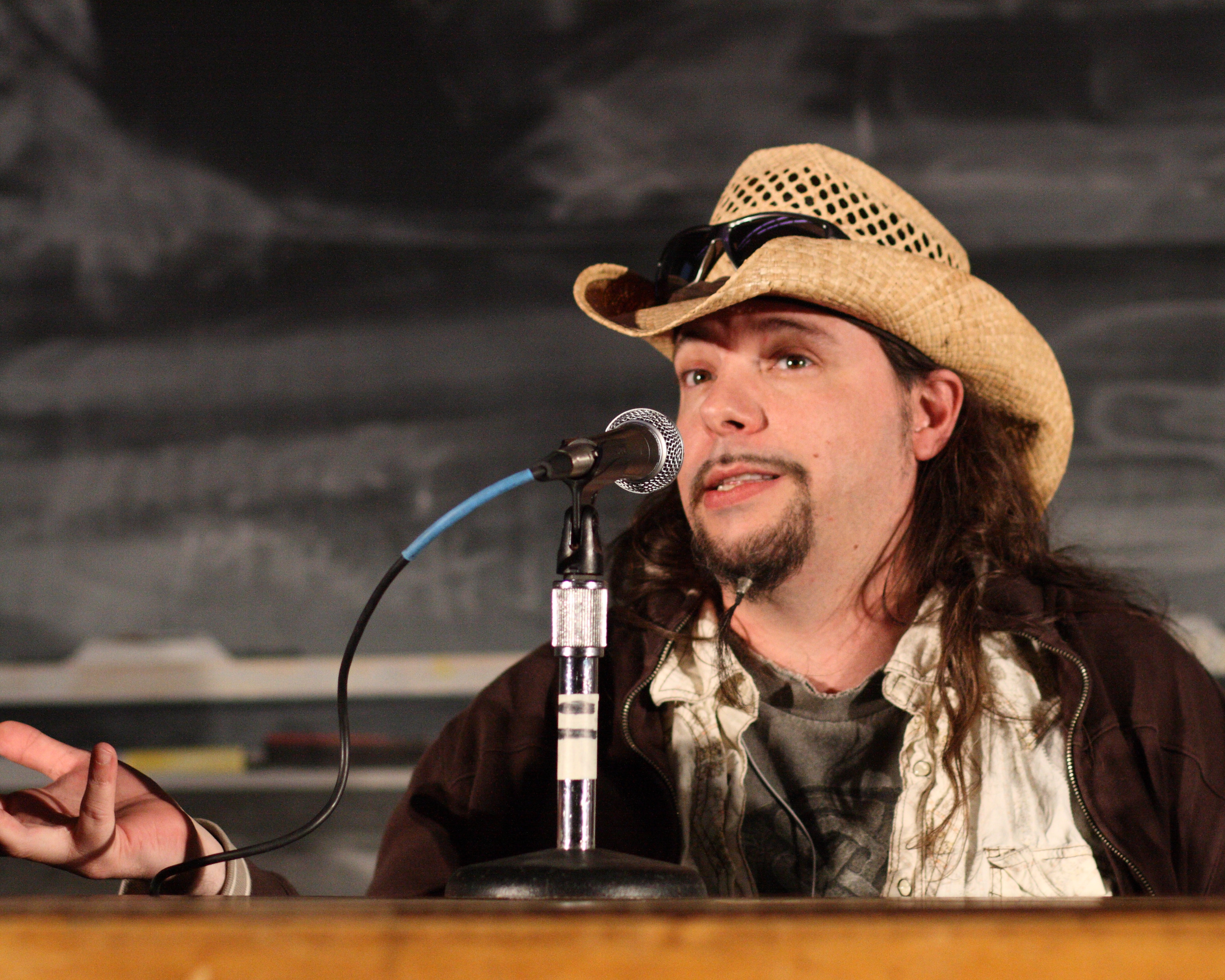 Michael McGloin, art director of the company that produced the Three Wolf Moon t-shirt, at ROFLCon II